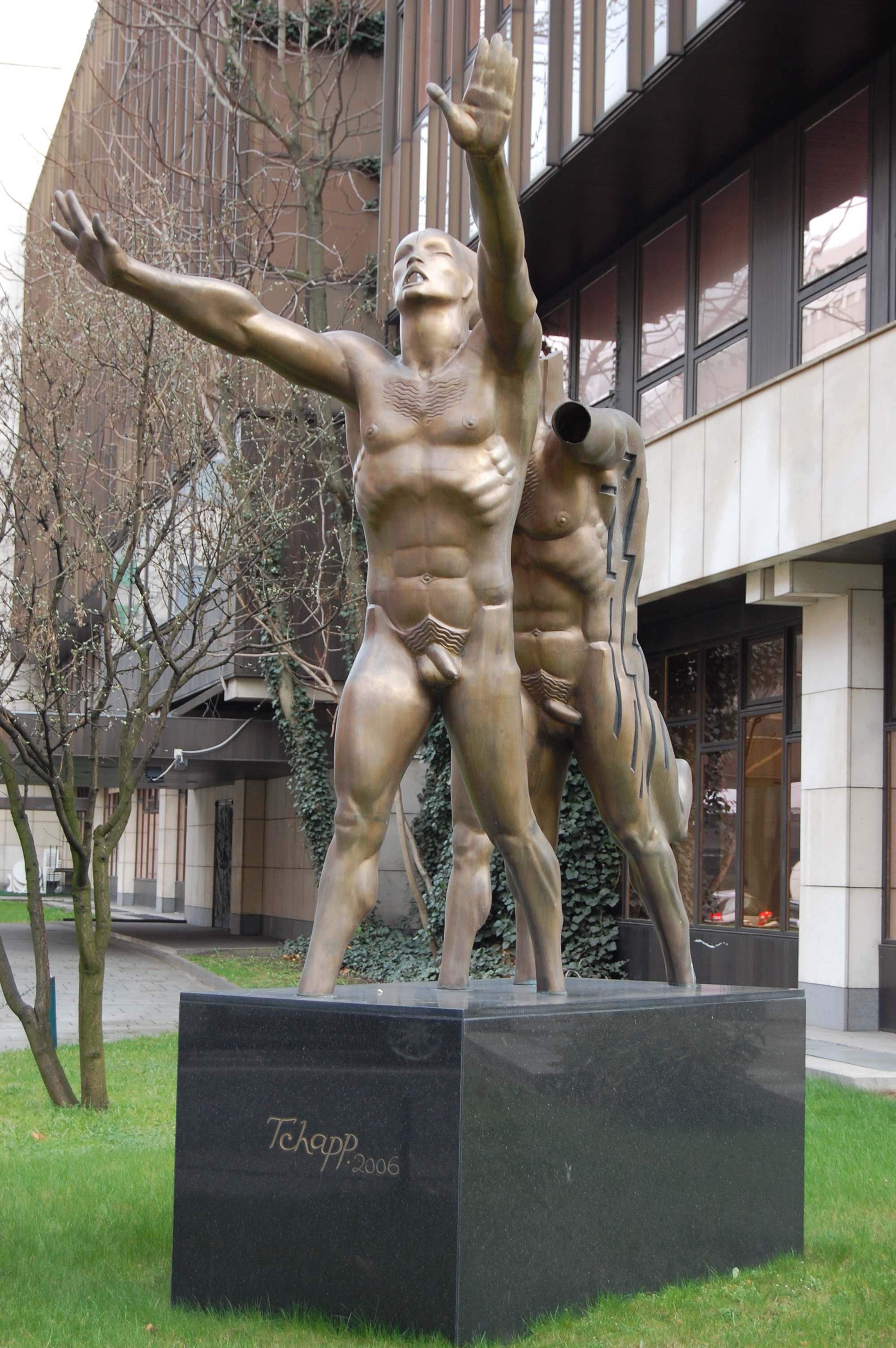 Embassy of Bulgaria in Berlin